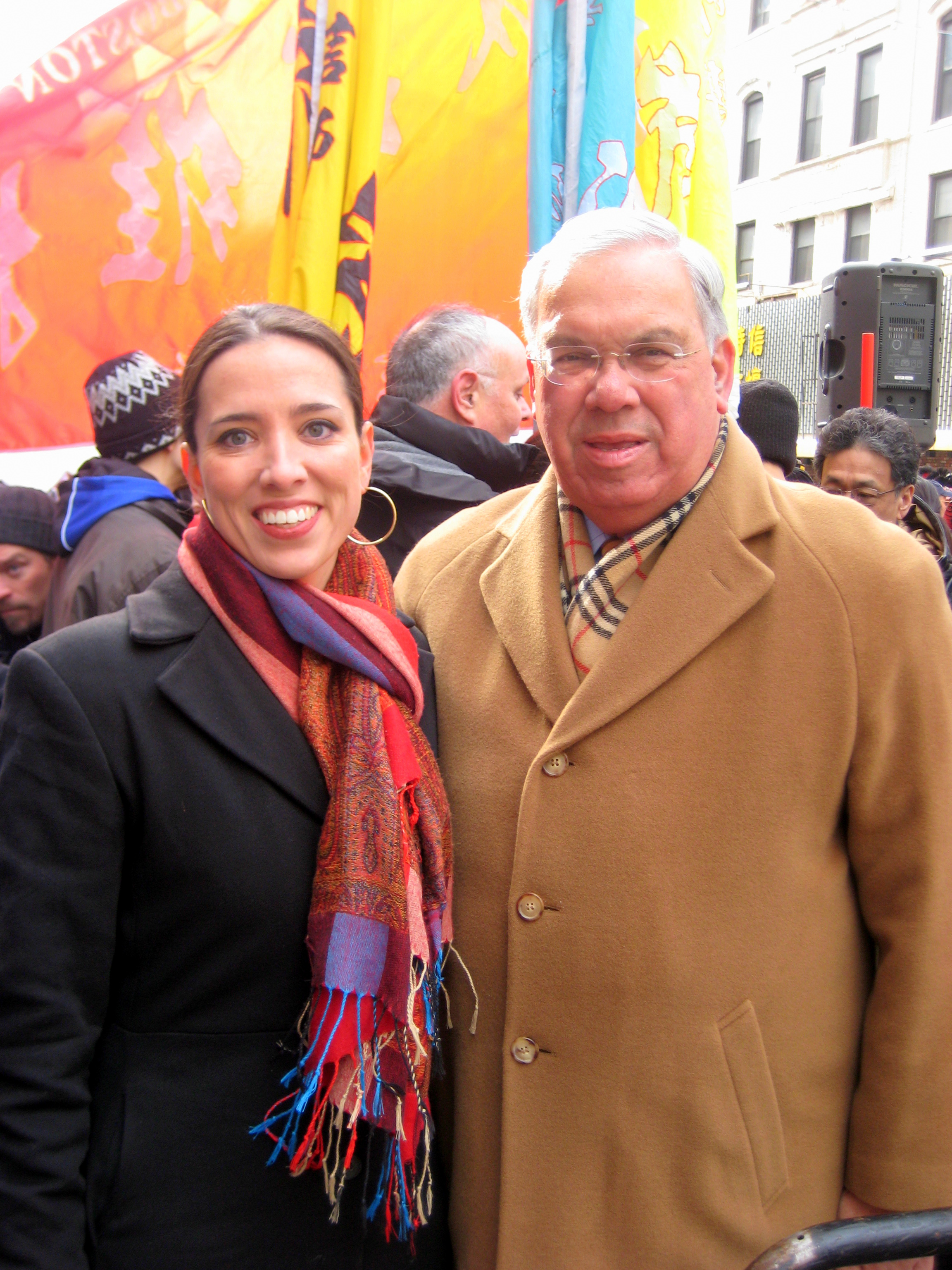 Massachusetts Senator Sonia Chang-Díaz and Boston Mayor Thomas Menino at Chinese New Year festival in Chinatown, Boston. February 2009 photo by John Stephen Dwyer